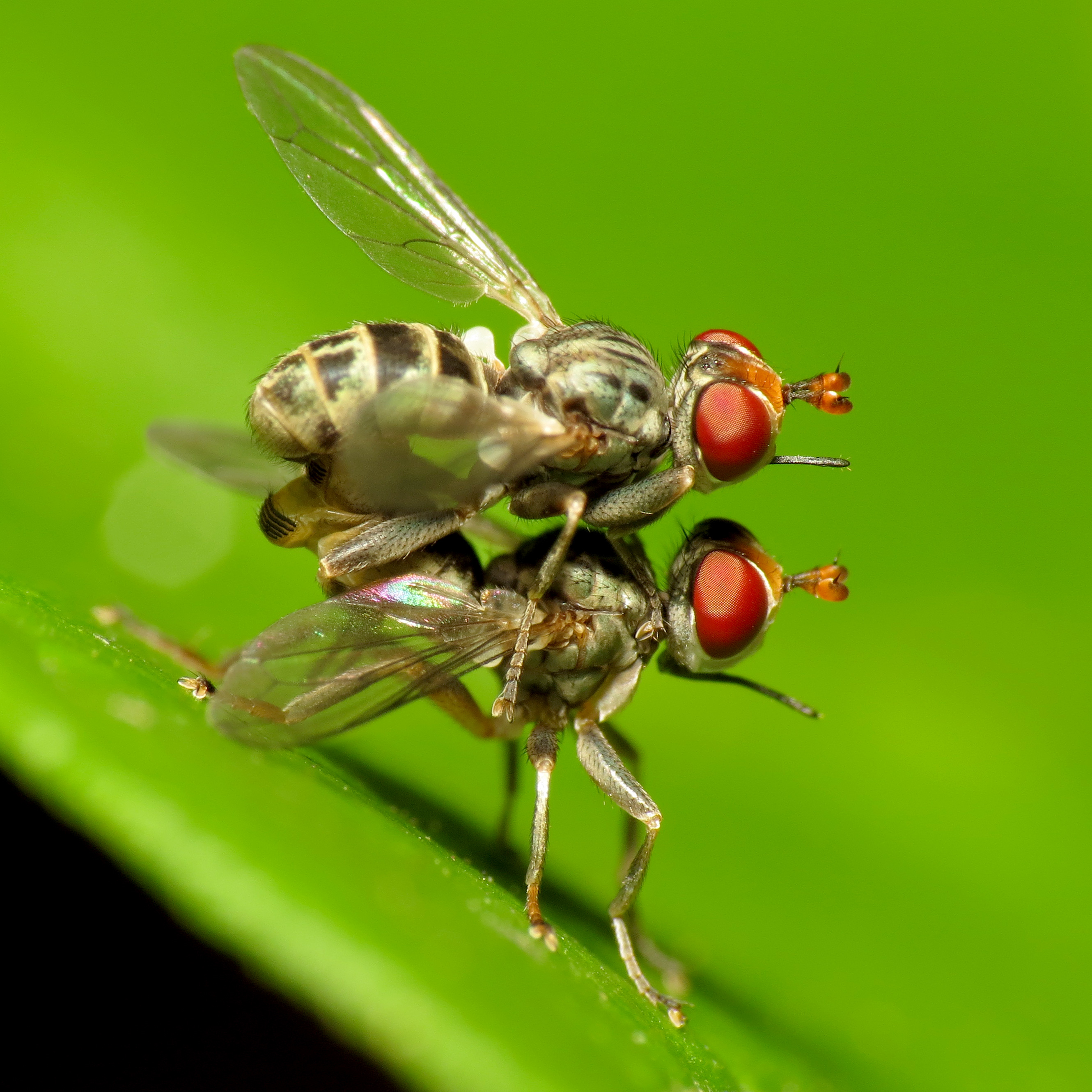 Zodion sp. Rock Creek Park, Washington, DC, USA.